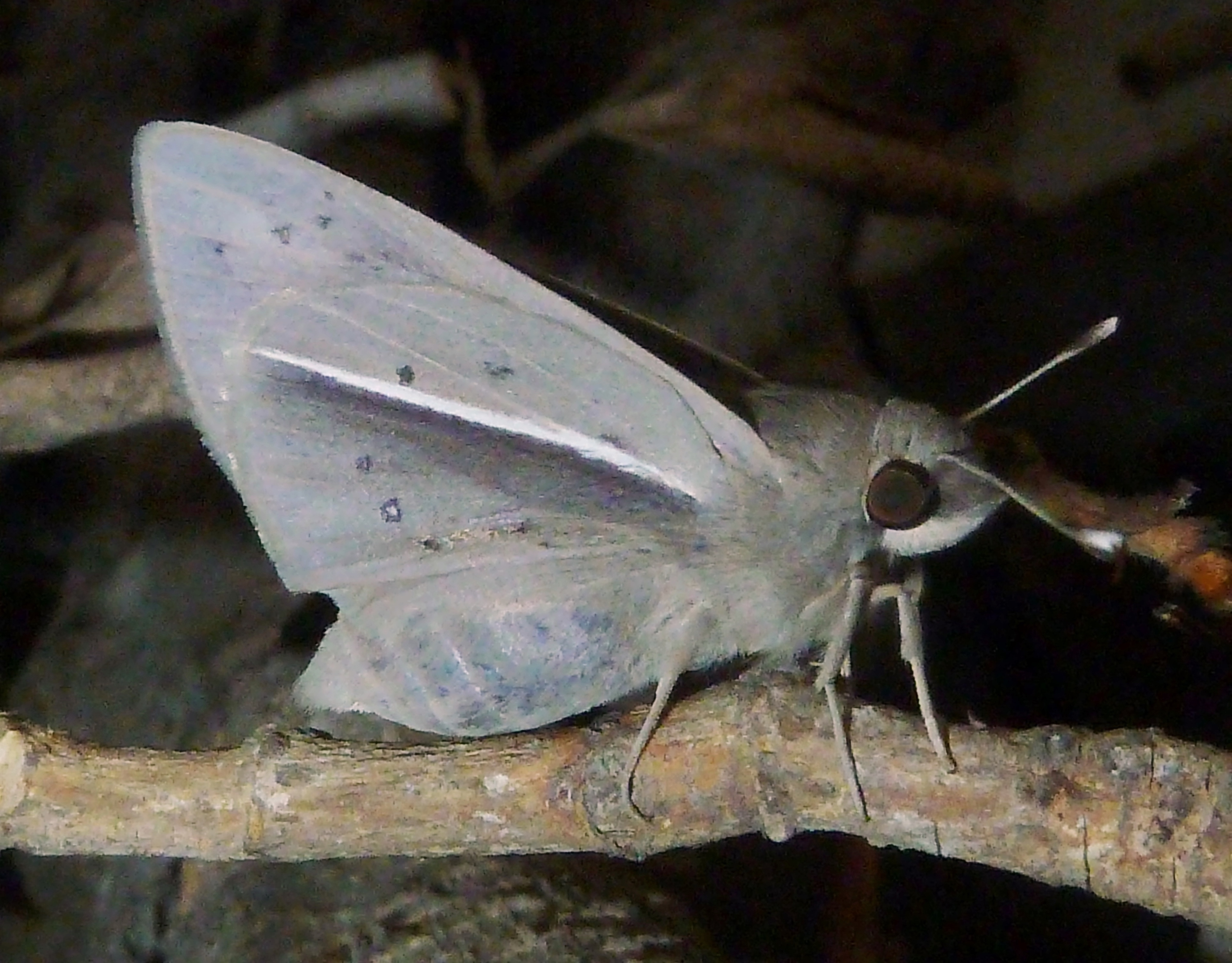 Palm-tree nightfighter in suburban Pretoria, where it likely breeds on ornamental Phoenix reclinata palms.